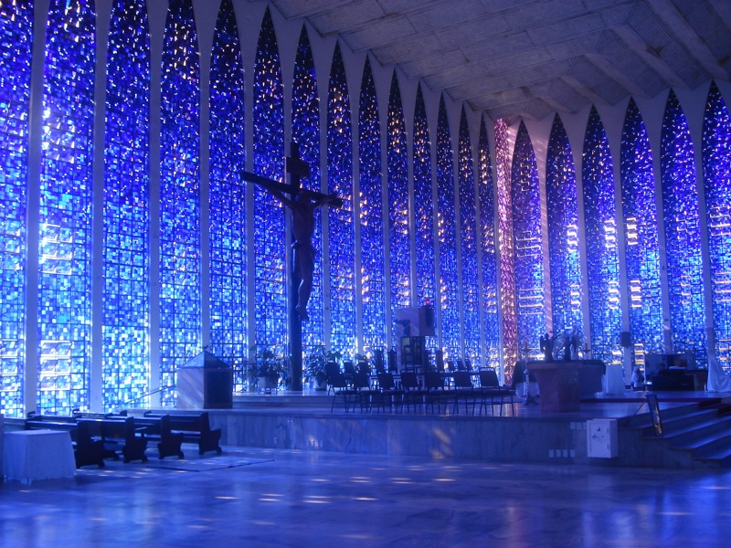 Interior of the Don Bosco Sanctuary in Brasília, Brazil.